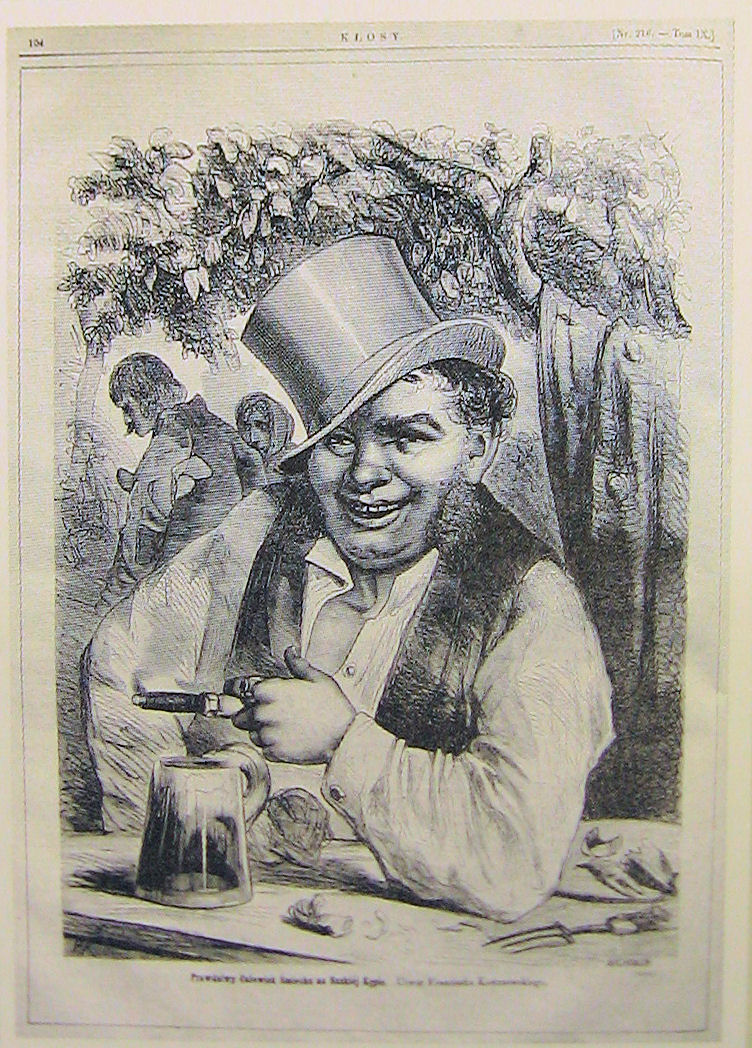 Franciszek Kostrzewski, A True Man of Laughter in Saska Kępa